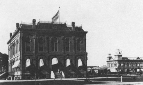 Arizona Territorial capitol in Prescott, Arizona and Phoenix, Arizona